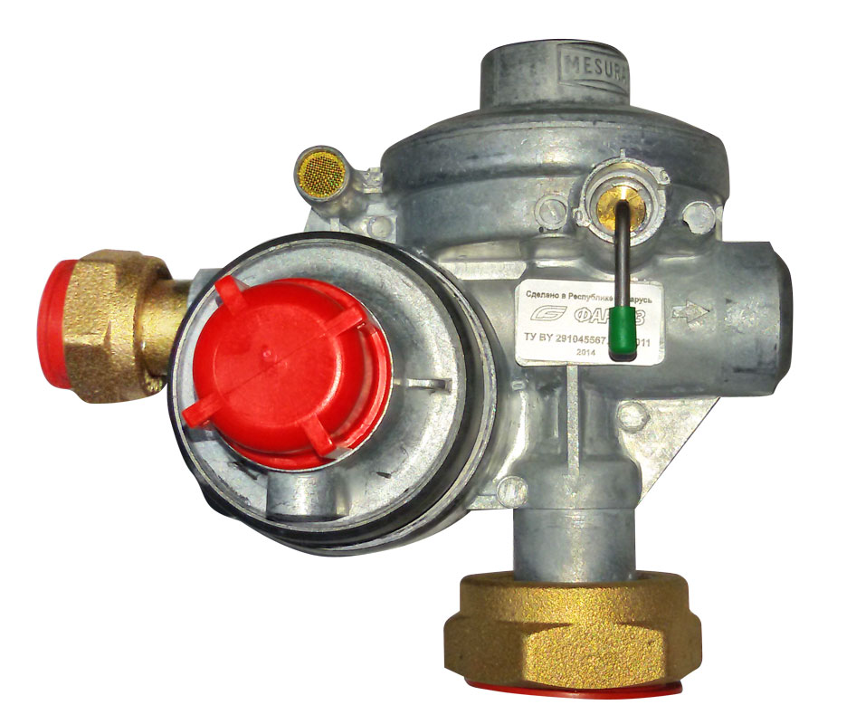 Регулятор давления газа домовой 10-25G производства "Фаргаз", Беларусь